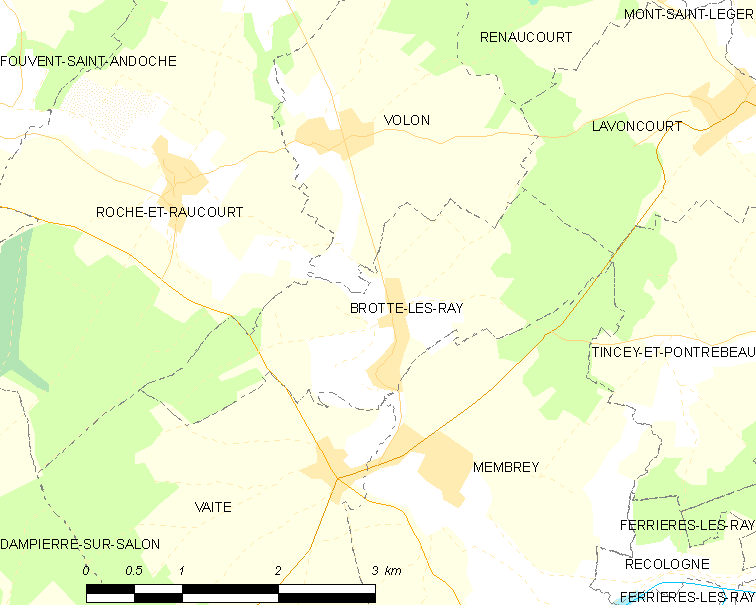 Map of French municipality